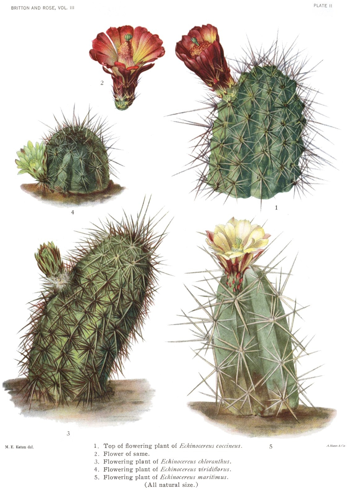 Echinocereus coccineus same Echinocereus chloranthus Echinocereus viridiflorus Echinocereus maritimus